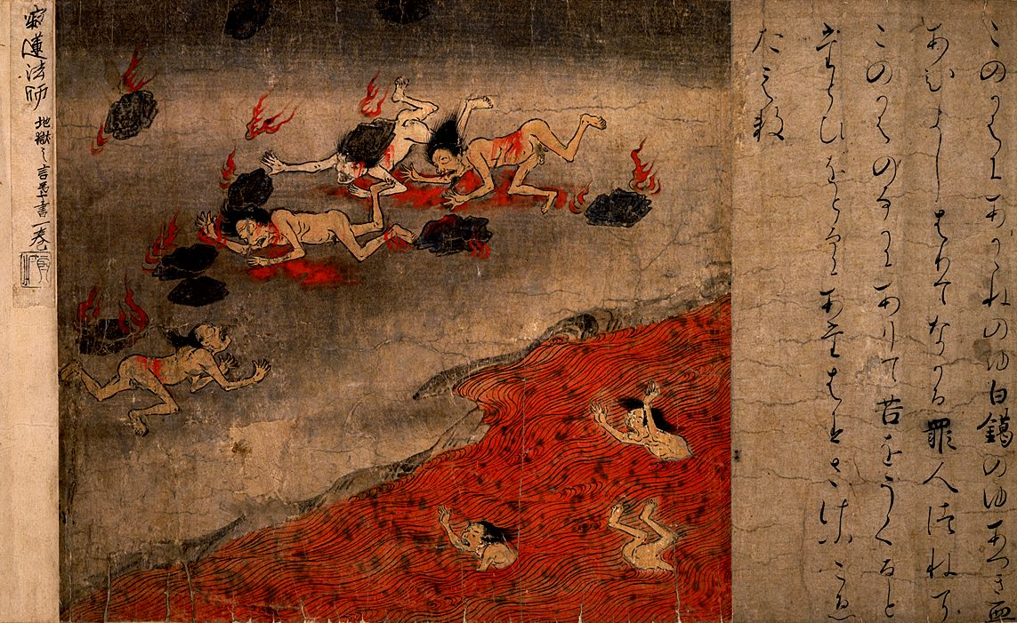 Scroll of the hell (Jigoku-Zoushi), Tokyo National Museum